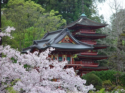 Spring in San Francisco's Golden Gate Park - Photo by Kevin Alves absolutsf